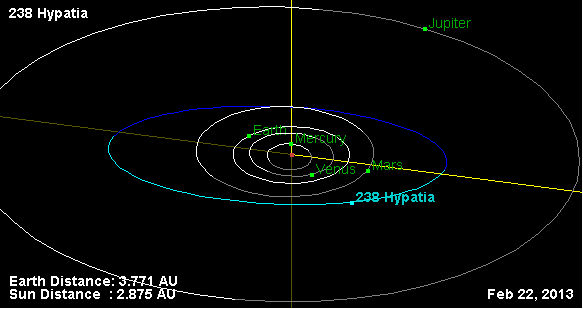 238 Hypatia's orbit in the Solar System.